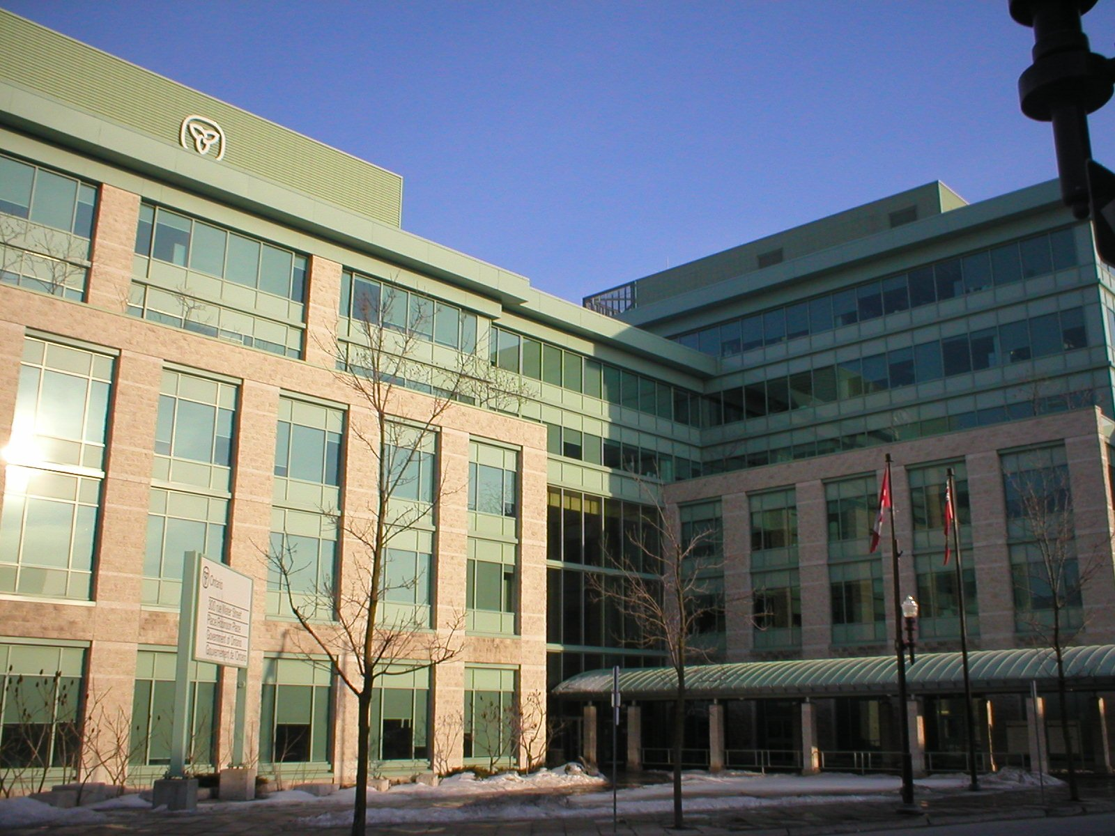 The headquarters of the Ontario Ministry of Natural Resources Ontario at Robinson Place in Peterborough, Canada.